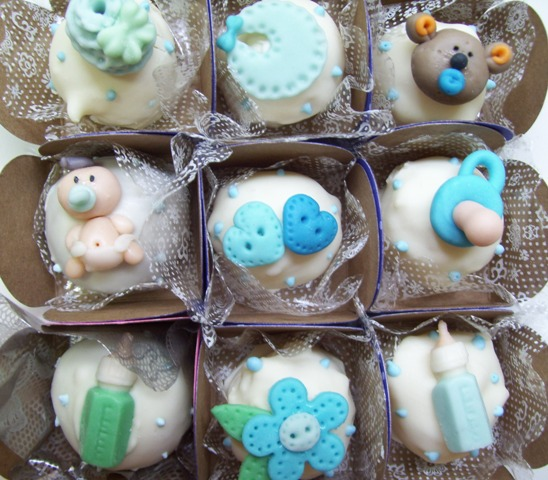 Baby shower- comestível chocolate truffles.